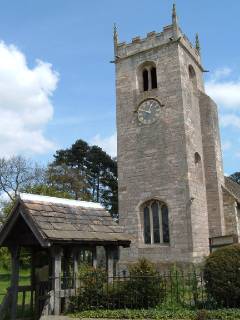 Lychgate and west tower of All Saints' parish church, Long Marston Church, North Yorkshire, seen from the southwest